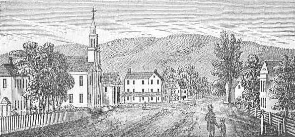 Southern View of Sheffield, (central part); from an 1839 woodprint.